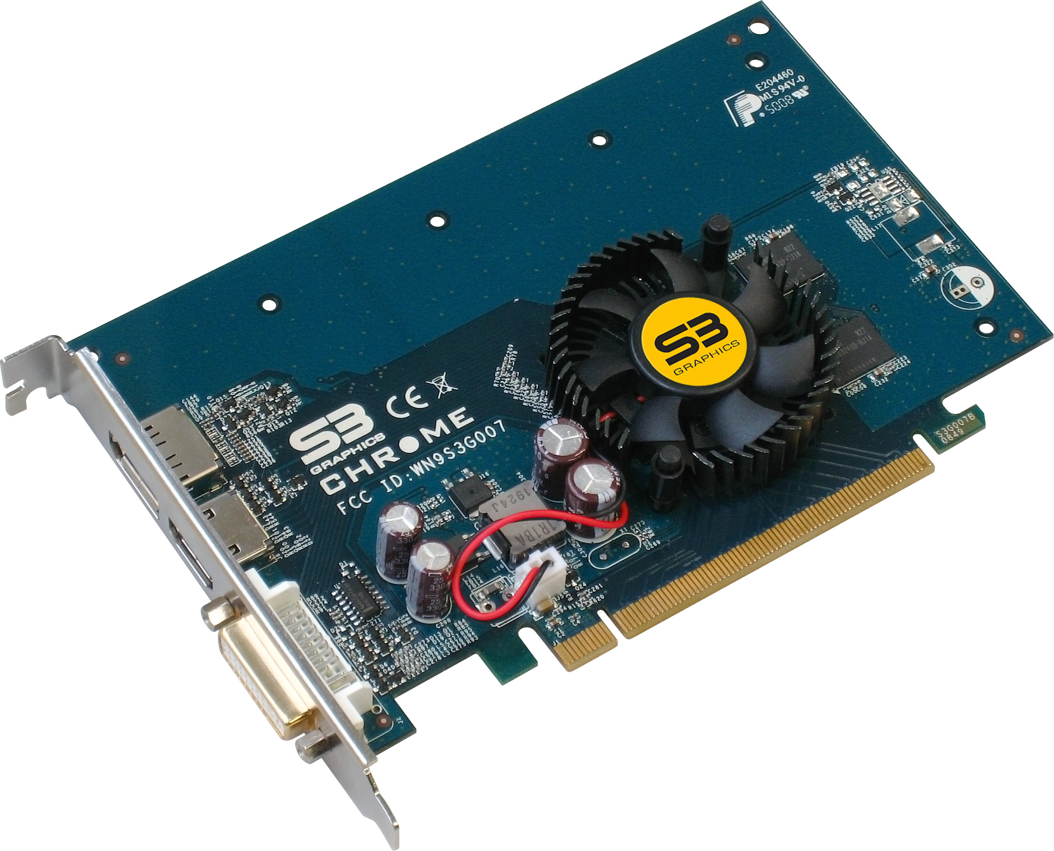 Chrome540GTX 256M